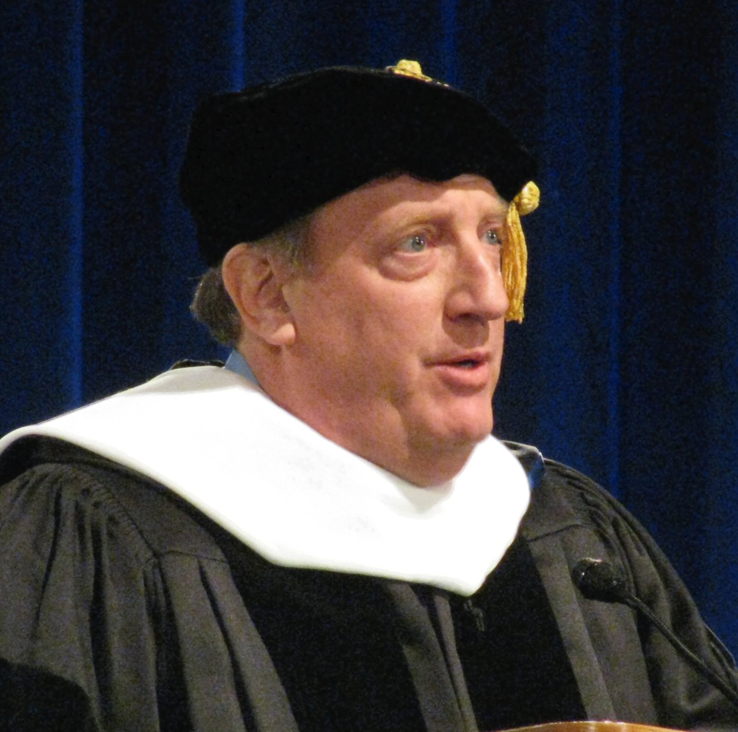 Alan Zweibel receiving an honrary degree at the 2009 University at Buffalo commencement ceremony.